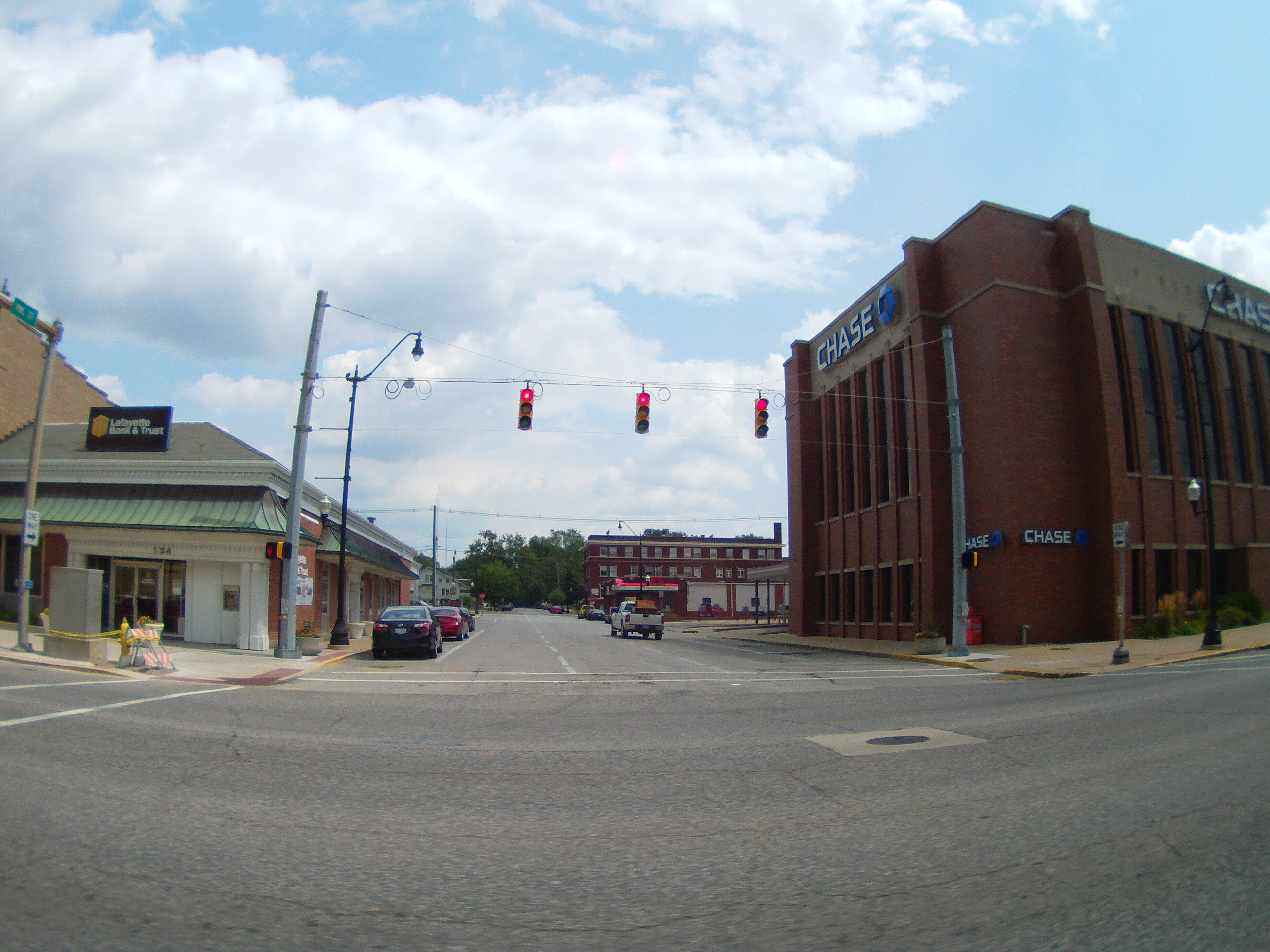 Intersection of U.S. 231 and Pike Street in Crawfordsville, Indiana.